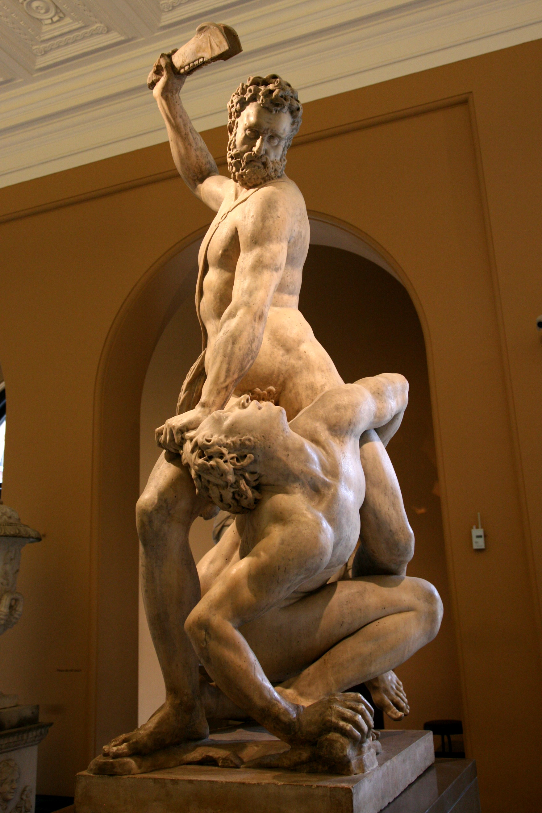 Marble sculpture by Giambologna from about 1560 at Victoria and Albert Museum, London, England, near seven feet high